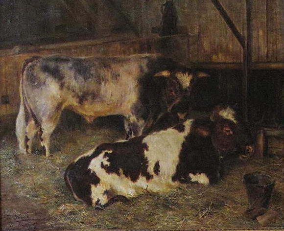 Cows: Two cows in a shed, one standing, one lying down. The original is in the collection of the National Museum of Fine Arts (Buenos Aires)